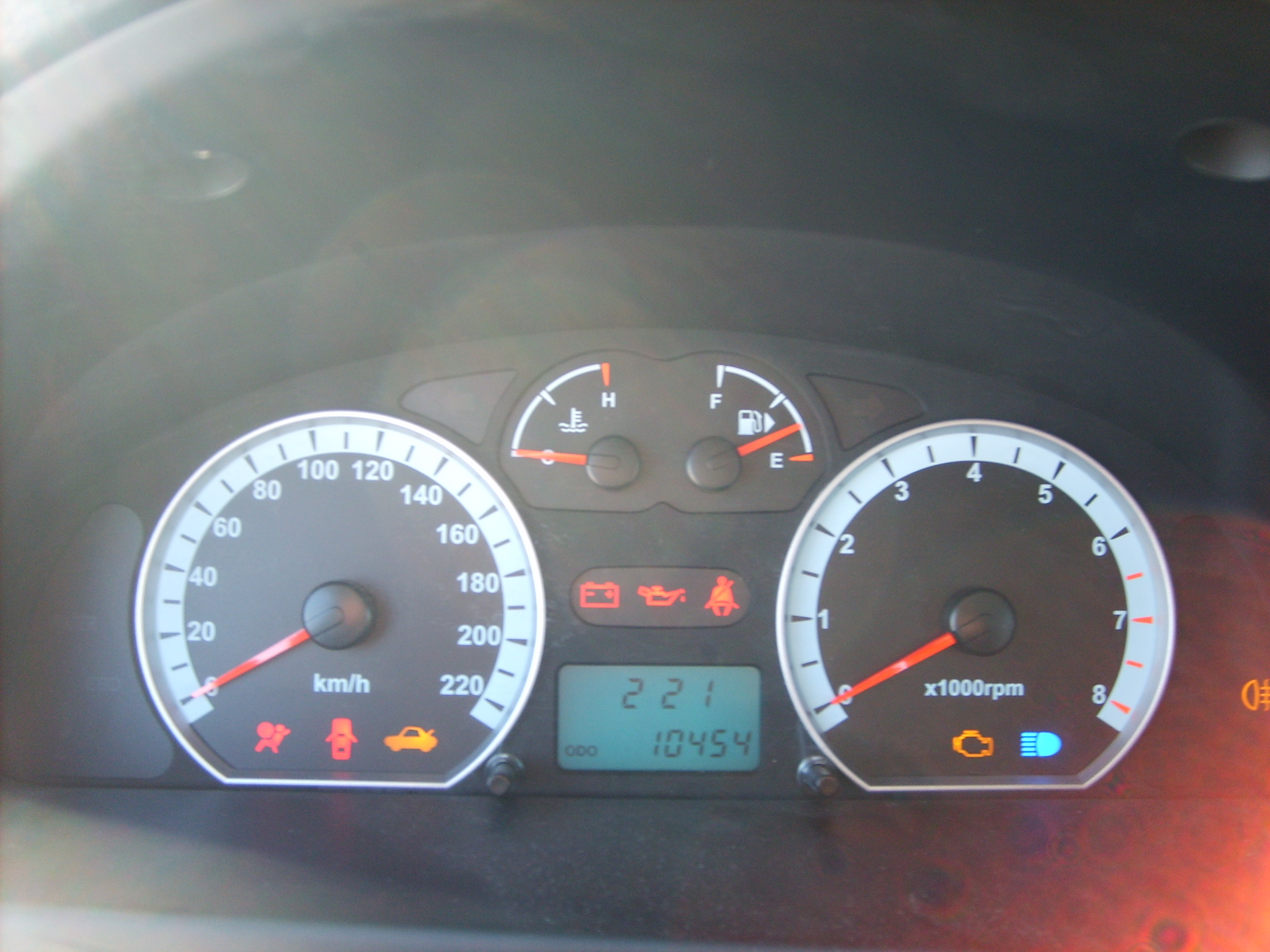 Tagaz Vega dashboard